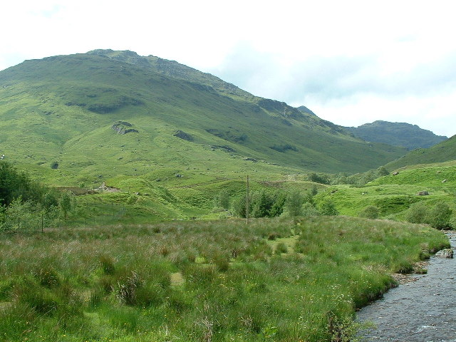 Inverlochlarig Burn & Beinn Tulaichean.